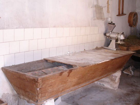 Artesa in the workshop of an old bakery oven. Location: The Escobar. Region of Murcia (Spain).